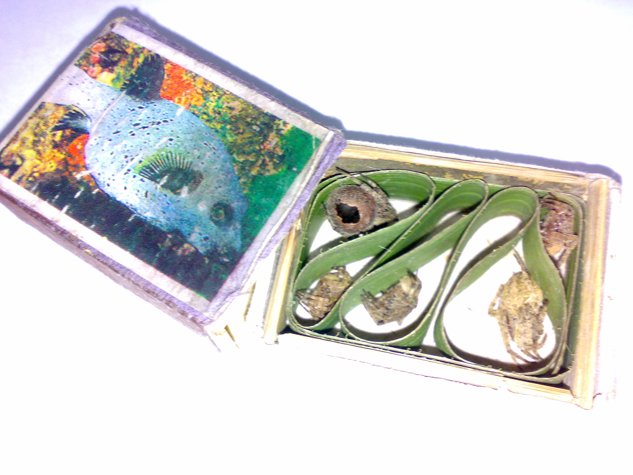 Used matchbox serves as a stable for fighting spiders between derbies.